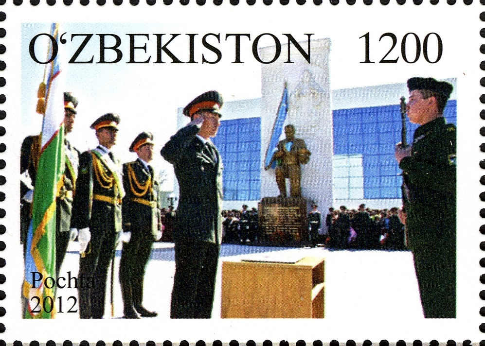 Stamps of Uzbekistan, 2012